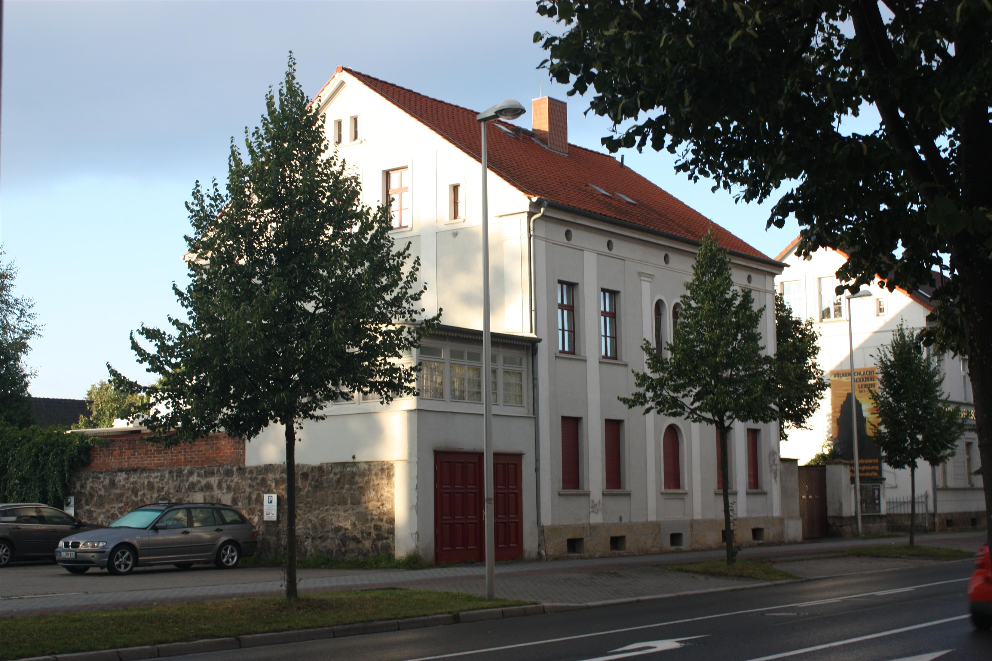 This is a photograph of an architectural monument.It is on the list of cultural monuments of Quedlinburg Harzweg